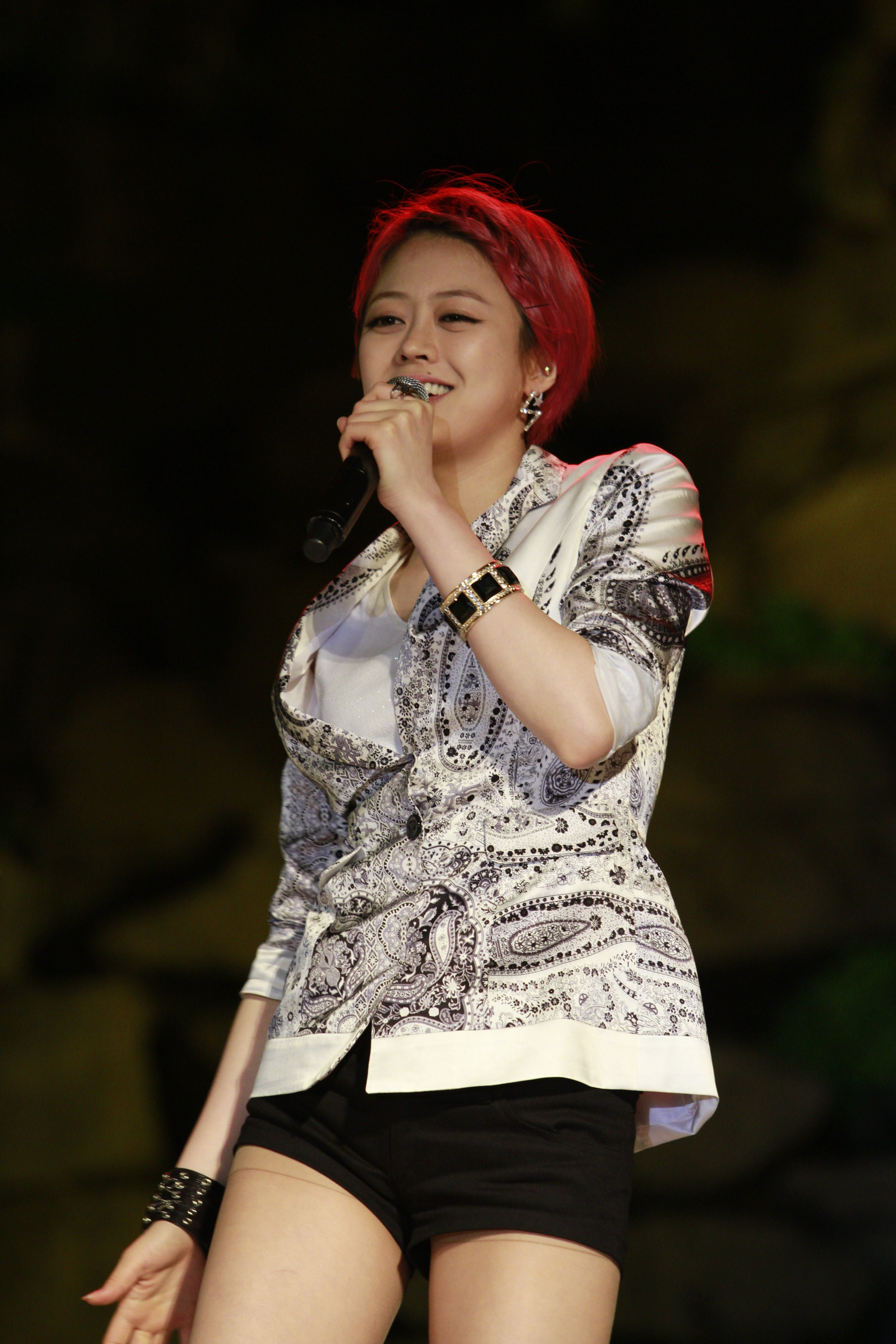 2012.05.04 Hwadojin Festival SPICA-Kim Bo A